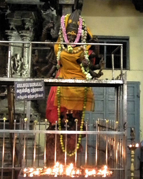 Statue of Bhadrakali in Madurai Meenakshi temple.